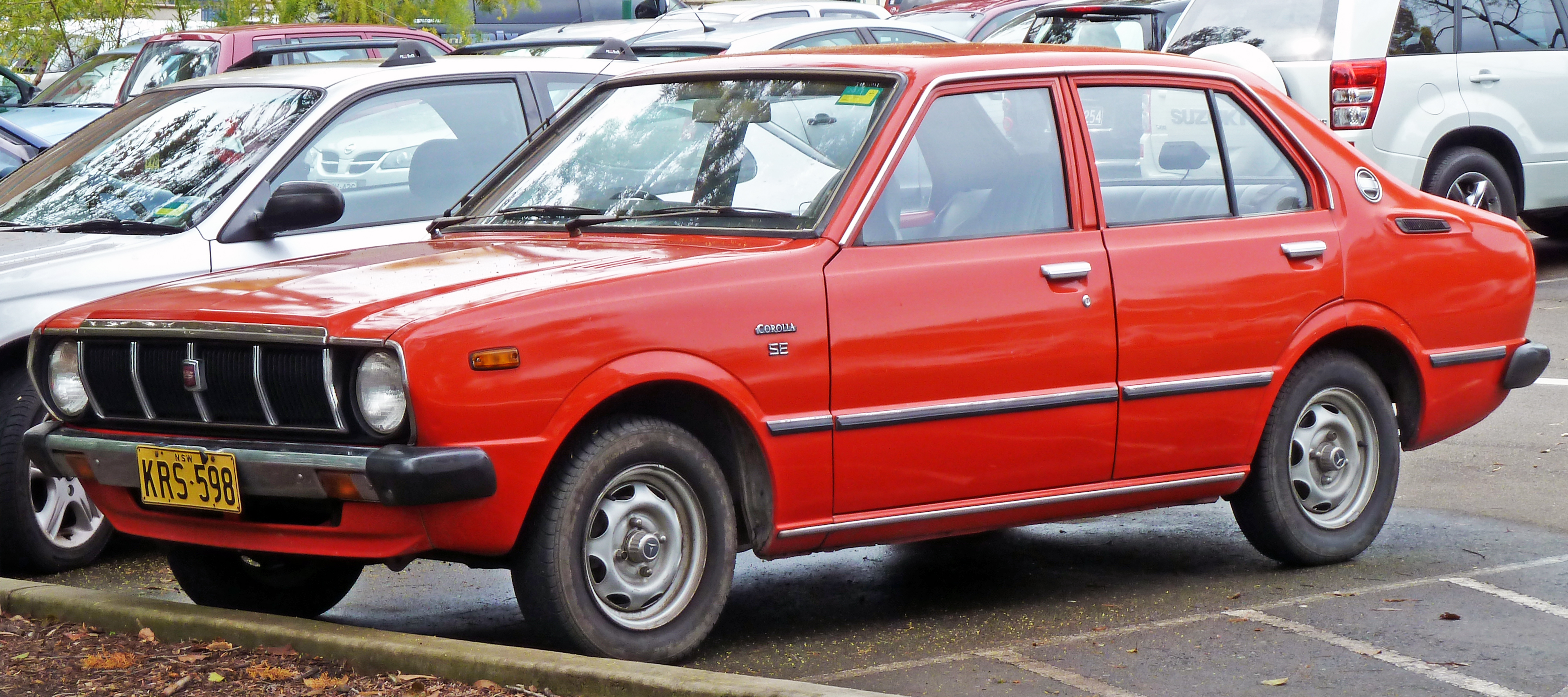 1979 Toyota Corolla (KE55R) SE sedan. Photographed in Sutherland, New South Wales, Australia.